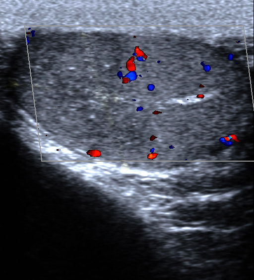 Ultrasound image of patient presenting with right testis pain in past 24 hours. Hypoechoic and avascular upper segment of R testis. Segmental testicular infarction.